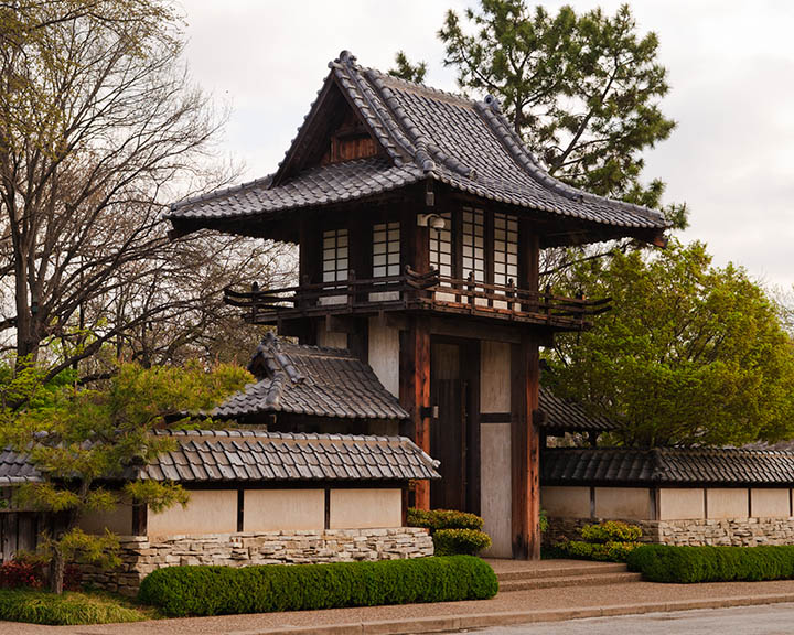 Outside the gateway to the Fort Worth Japanese Gardens